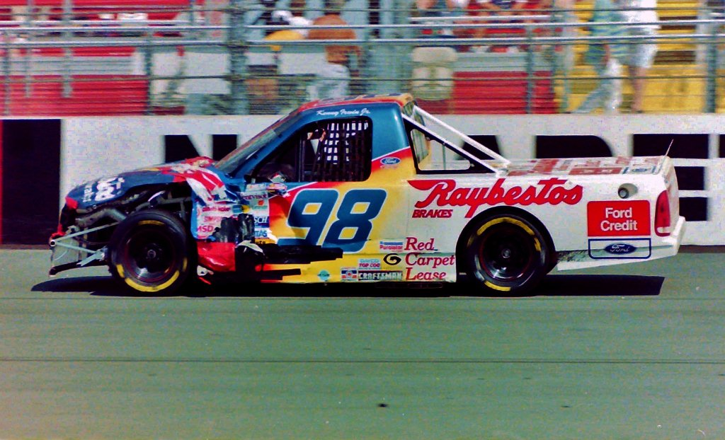 Kenny Irwin, Jr. drives his damaged No. 98 Ford at Nazareth Speedway in the NAPA Autocare 200, June 29, 1997.